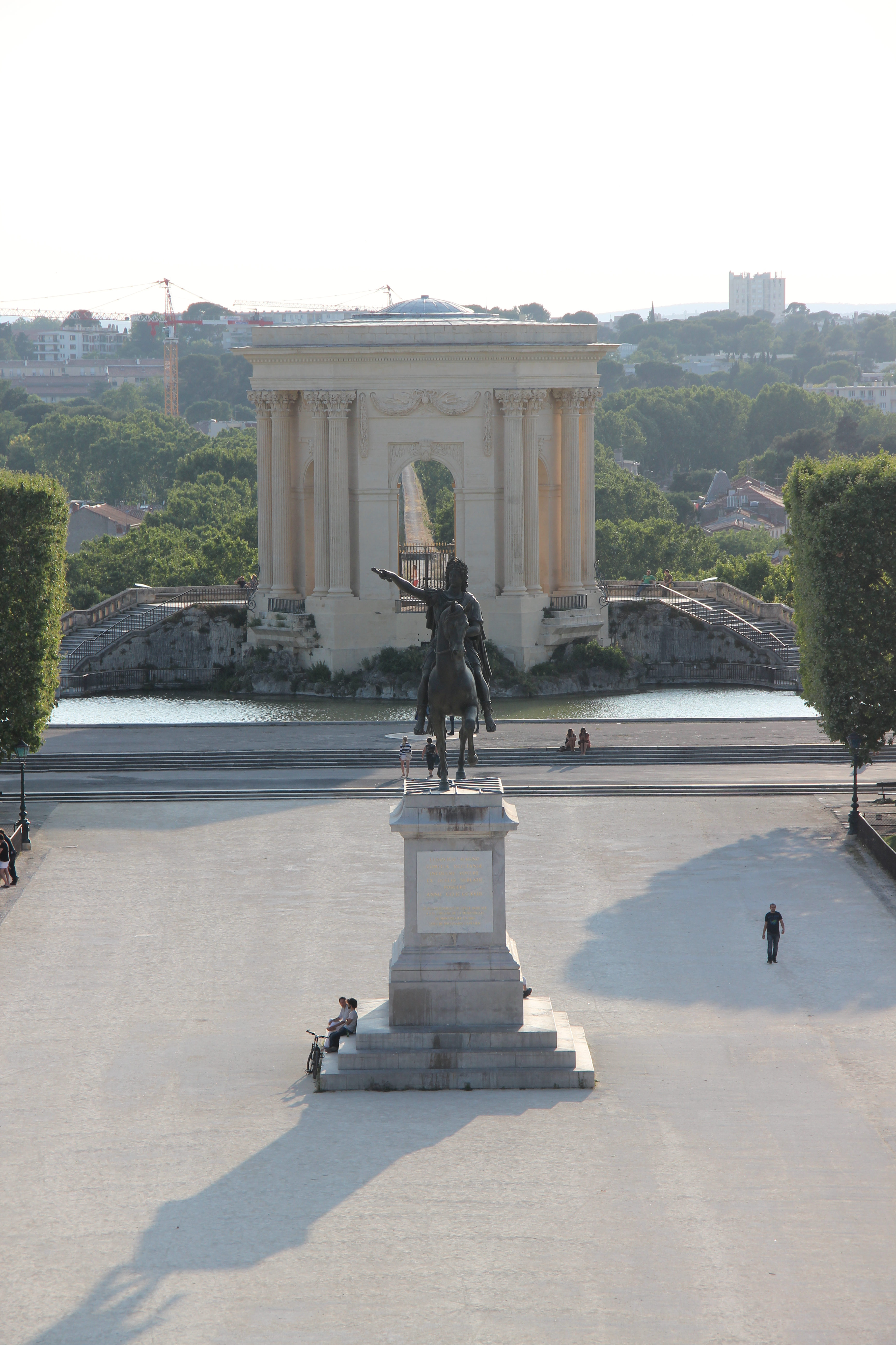 View from the Porte du Peyrou